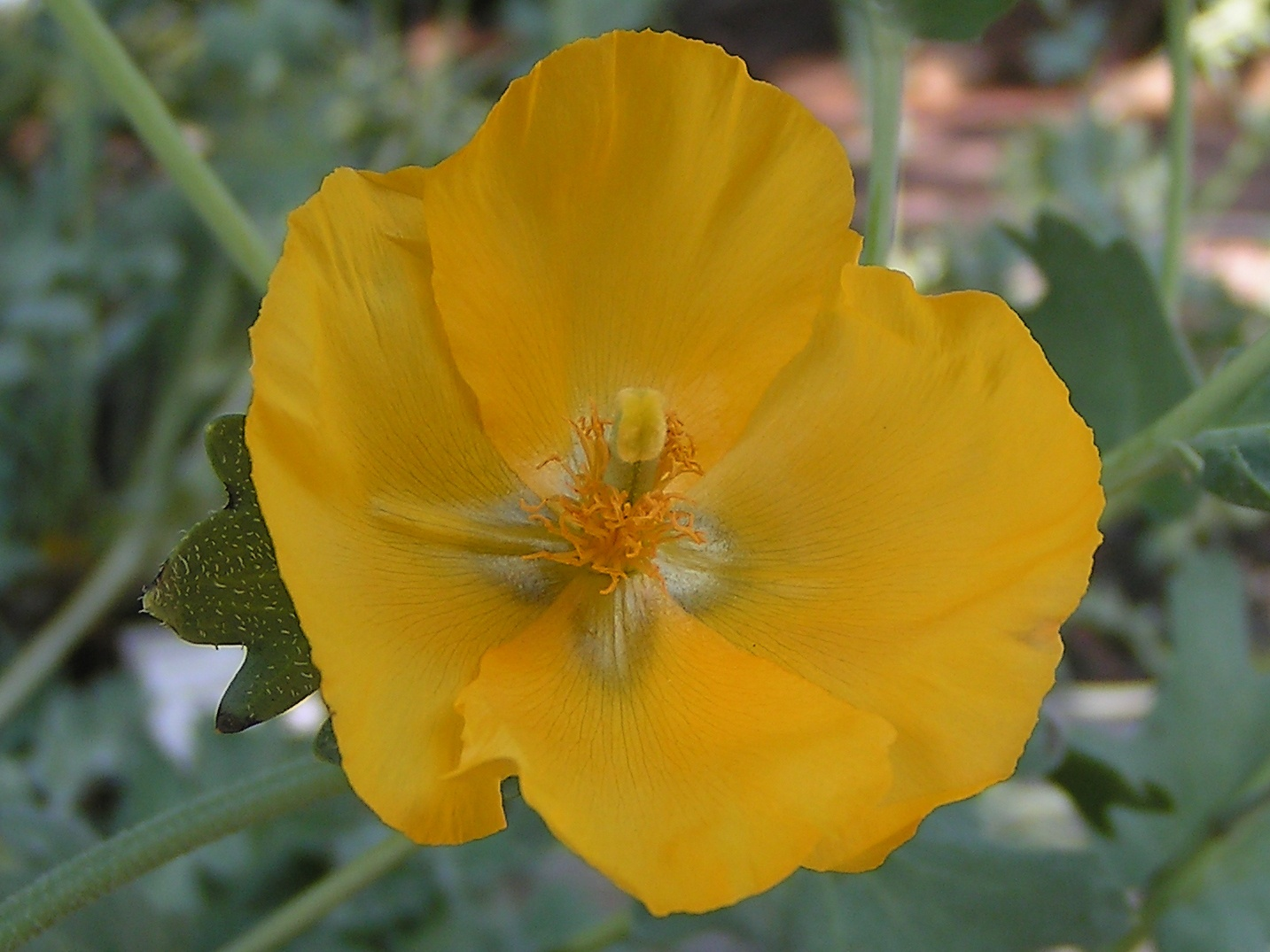 Glaucium flavum 2005, sep 4 by pethan Botanical Gardens Utrecht University